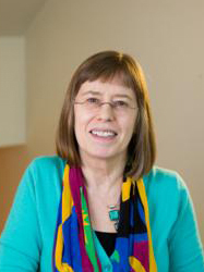 Portrait released in support of on-going improvement to Wikipedia articles, refer to